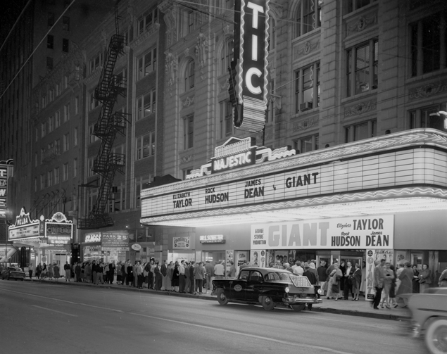 The Majestic Theater in Dallas, showing the film Giant (1956). Date in file title incorrect.